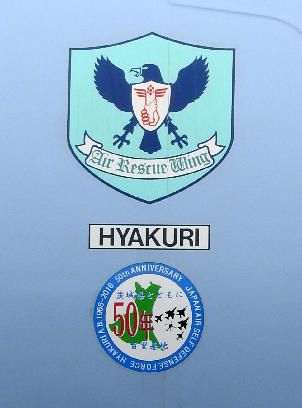 The fuselage marking of U-125A 72-3006 at the 2016 Hyakuri Air Show